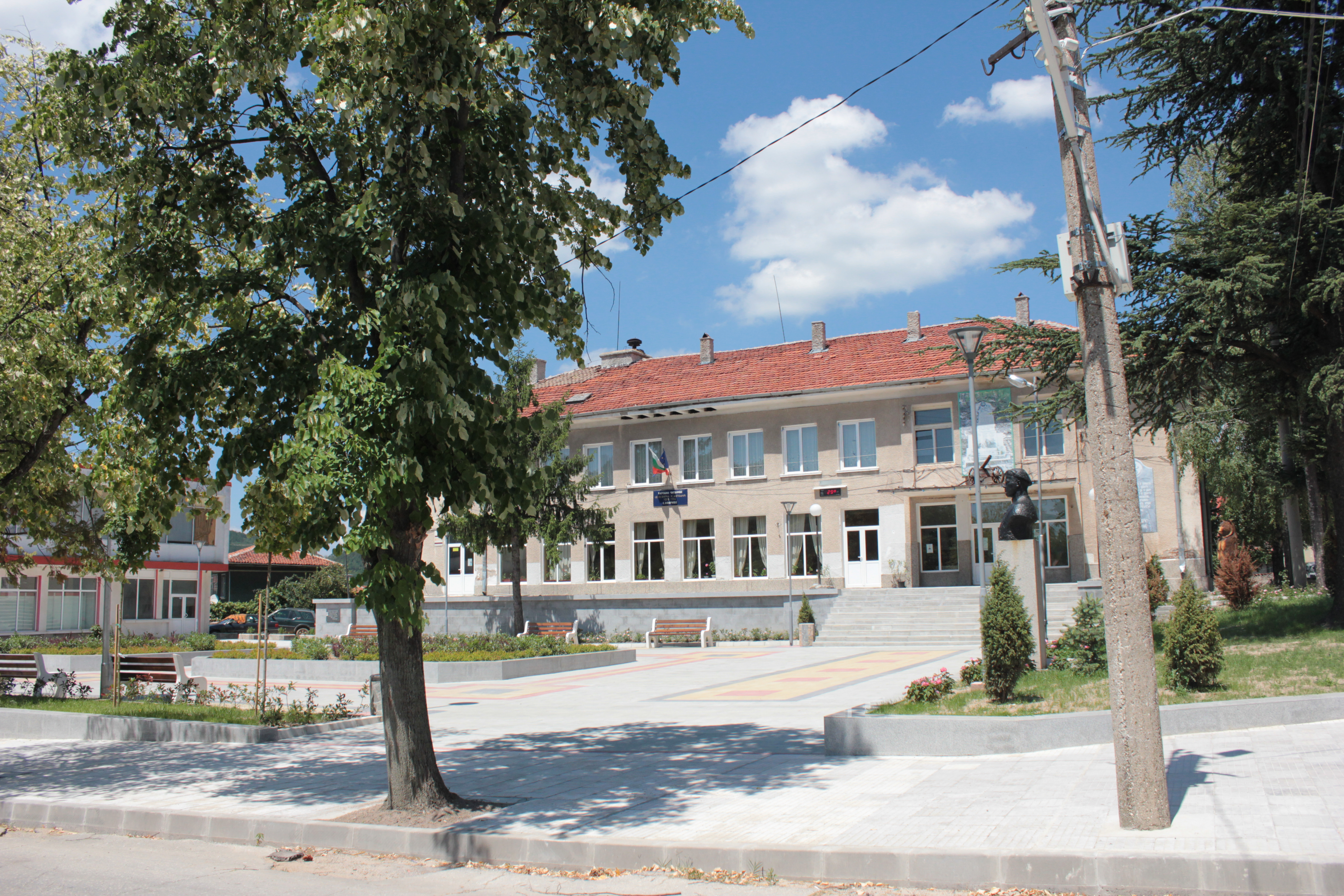 Culture club (chitalishte) in Oborishte